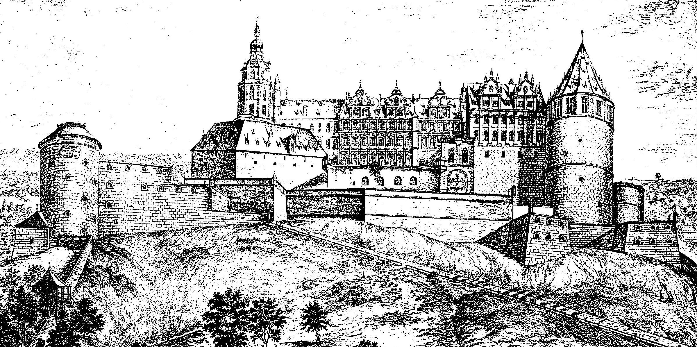 historic views of Heidelberg, Germany